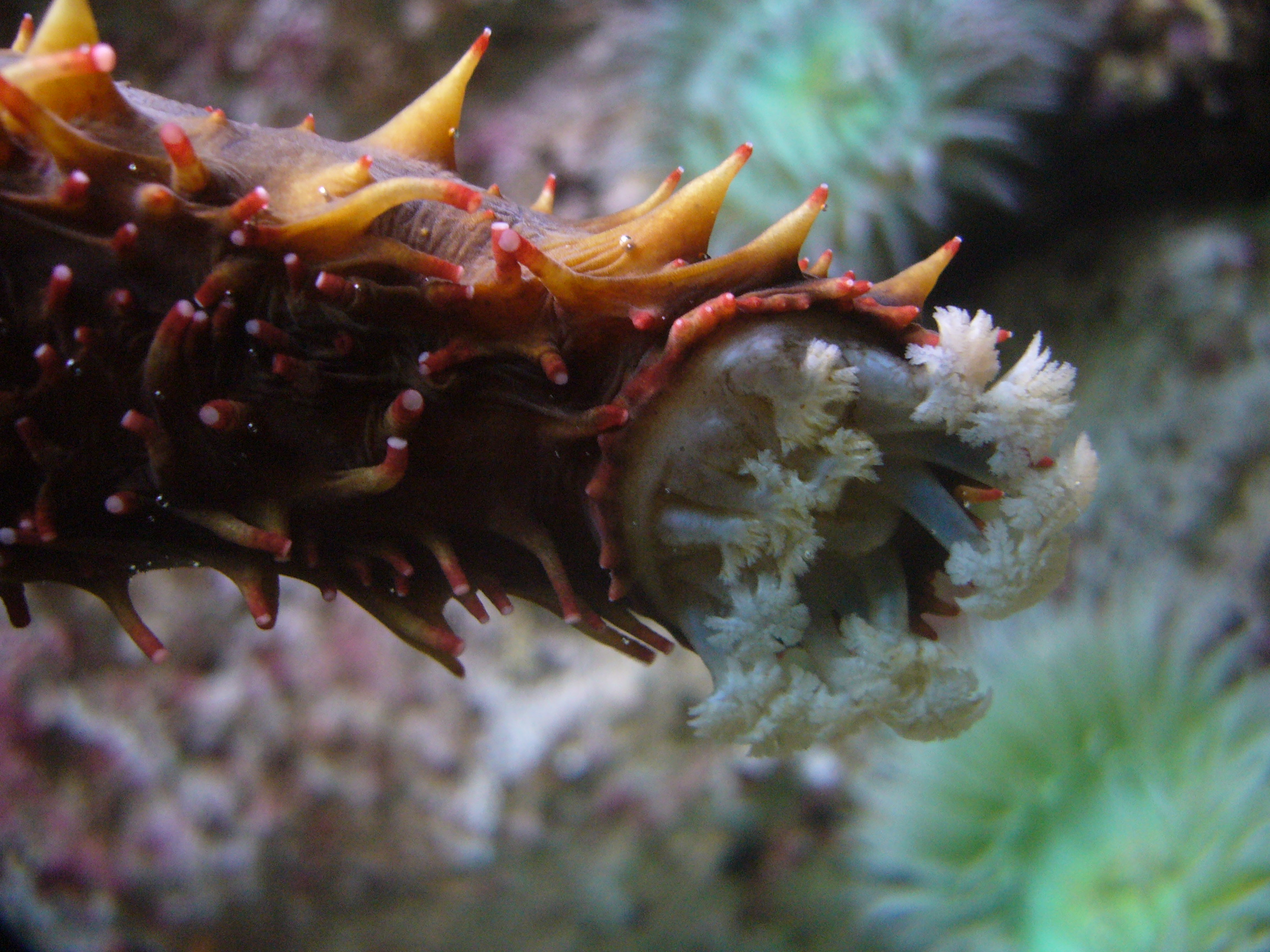 Holothuroidea (sea cucumber) in Sala Humboldt of Aquarium Finisterrae (House of the Fishes), in Corunna, Galicia, Spain.